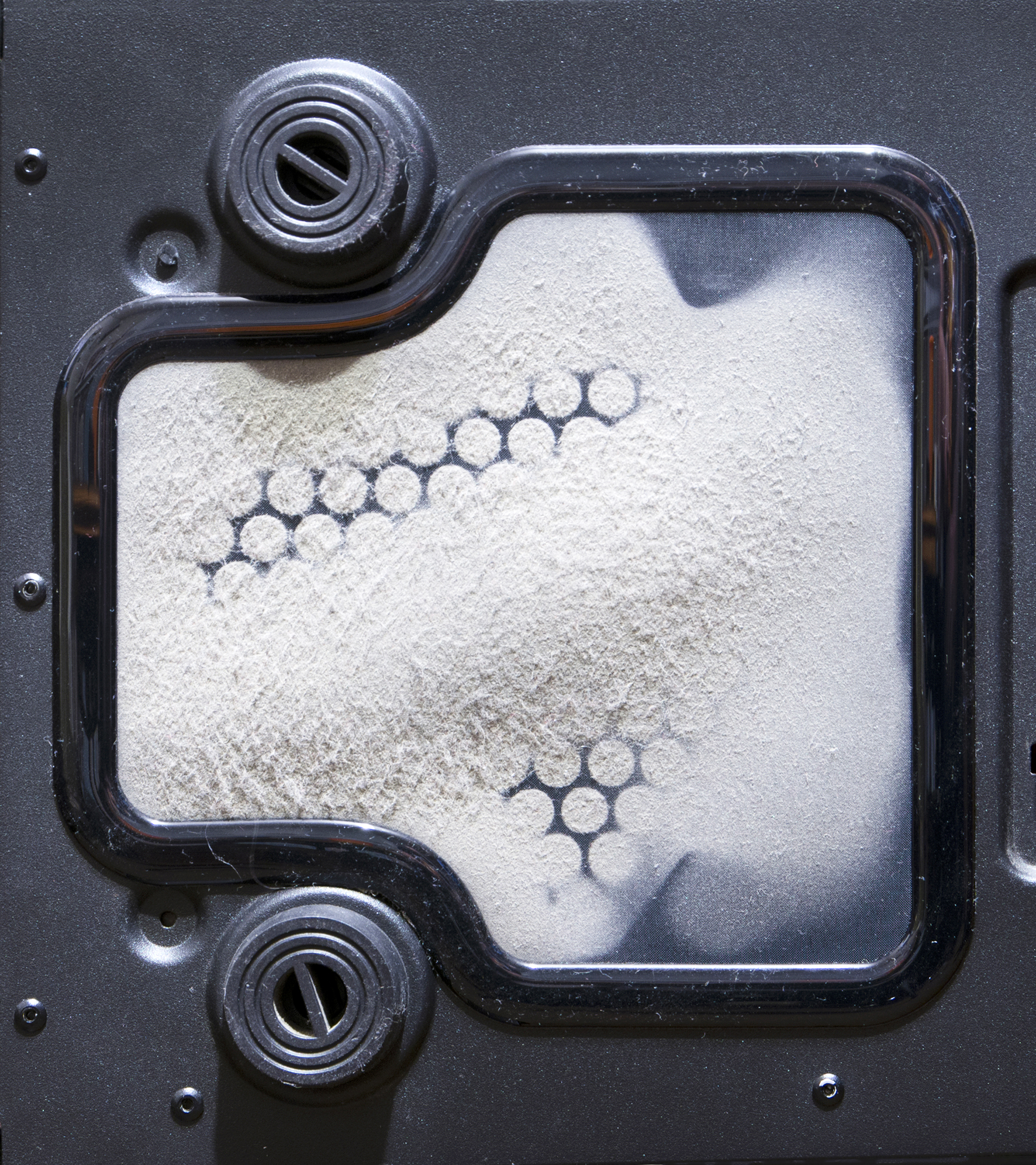 The dust on the DEMCiflex air filter, on the bottom of the computer